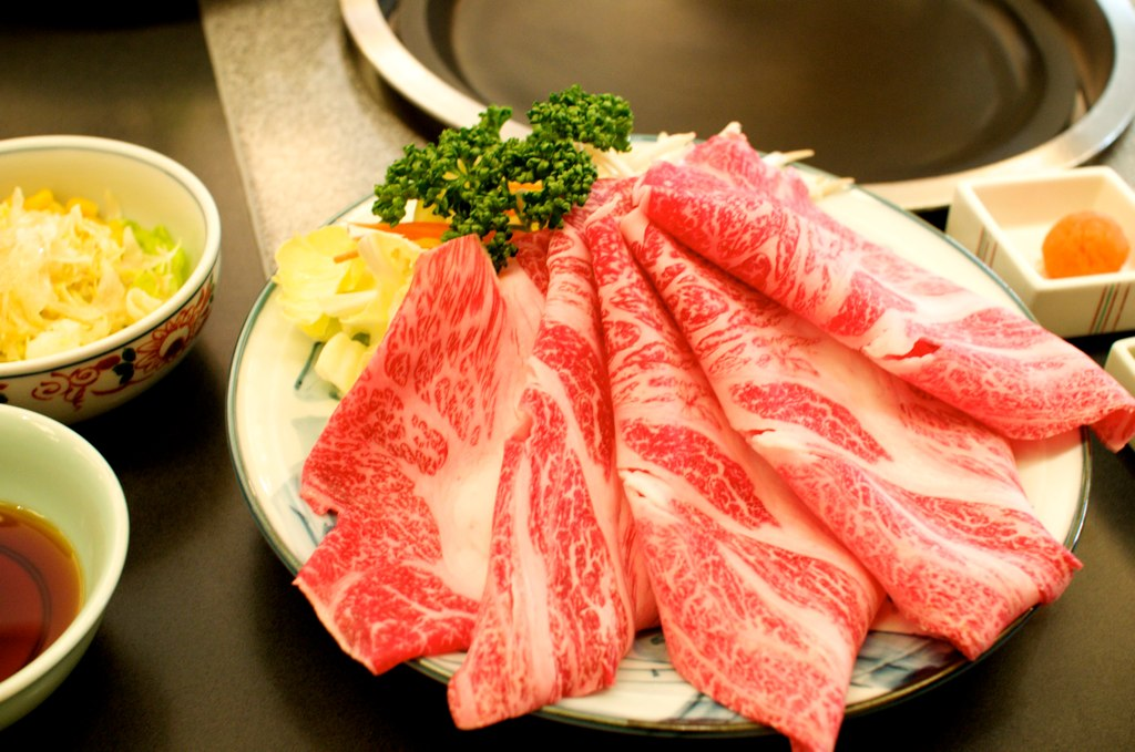 "Saga beef" which is one of the black-haired Wagyū (Produced in Saga, Japan)